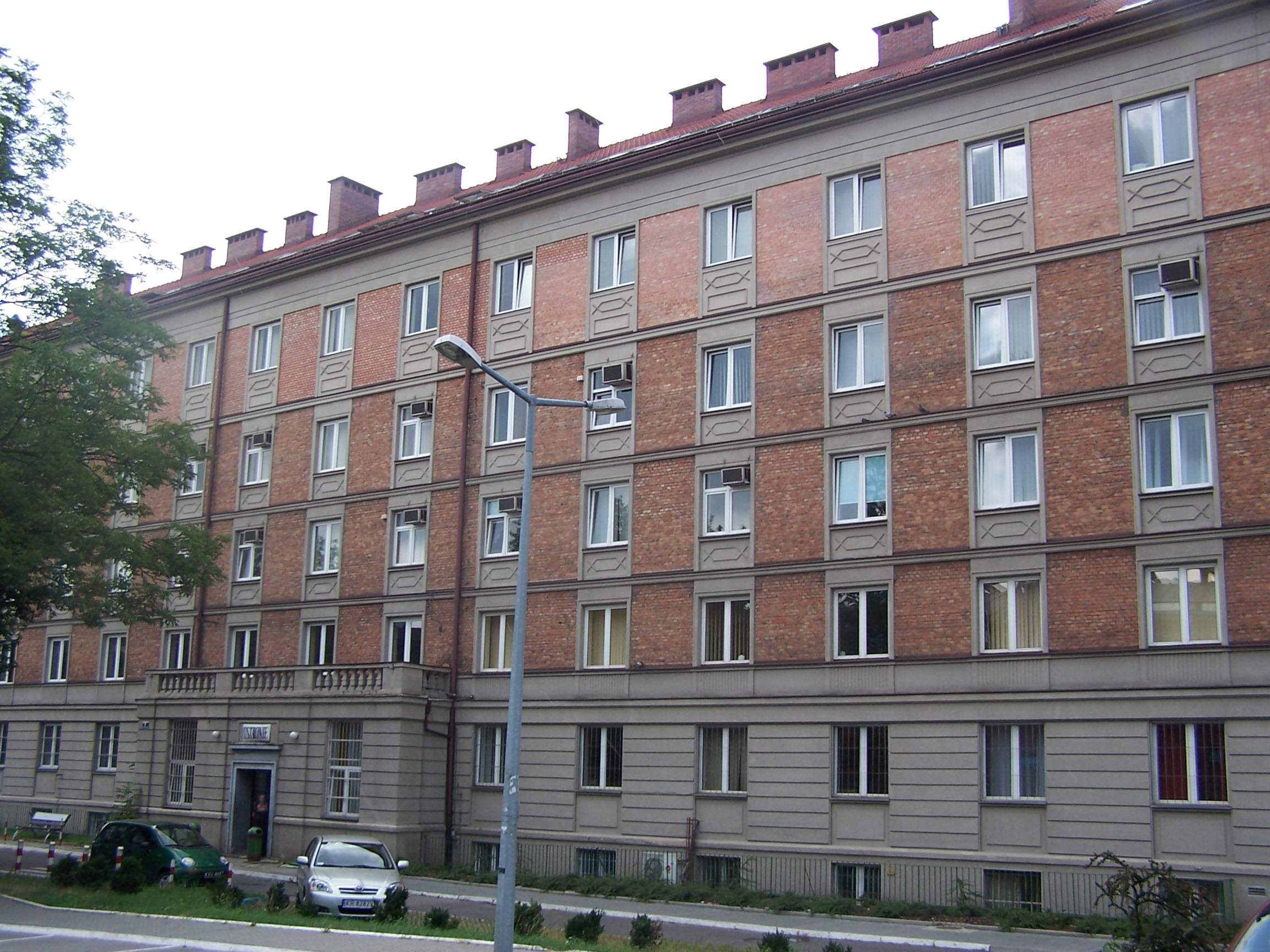 Photo by Piotrus. Academy of Economics in Kraków. Building 'Ustronie'.